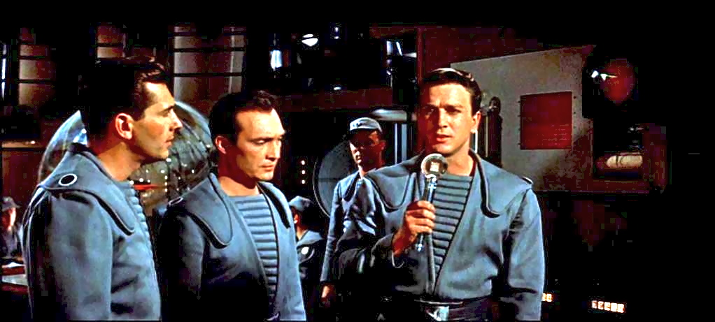 Screenshot of Leslie Nielsen from the trailer for the film Forbidden Planet.